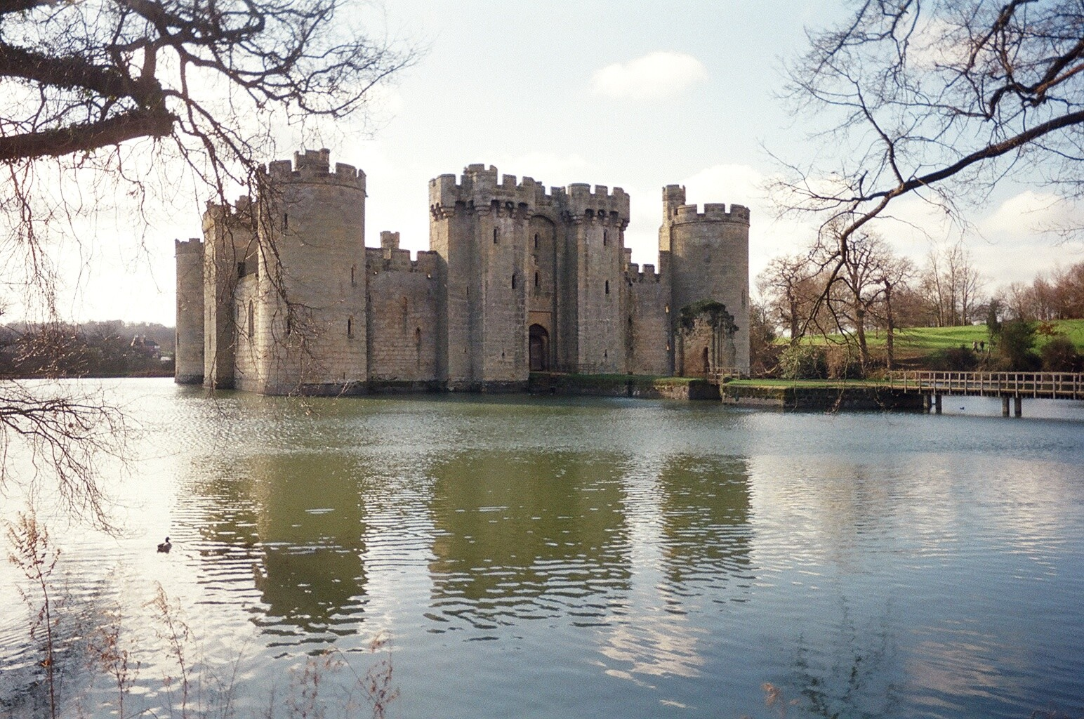 Bodiam Castle from the north-east.